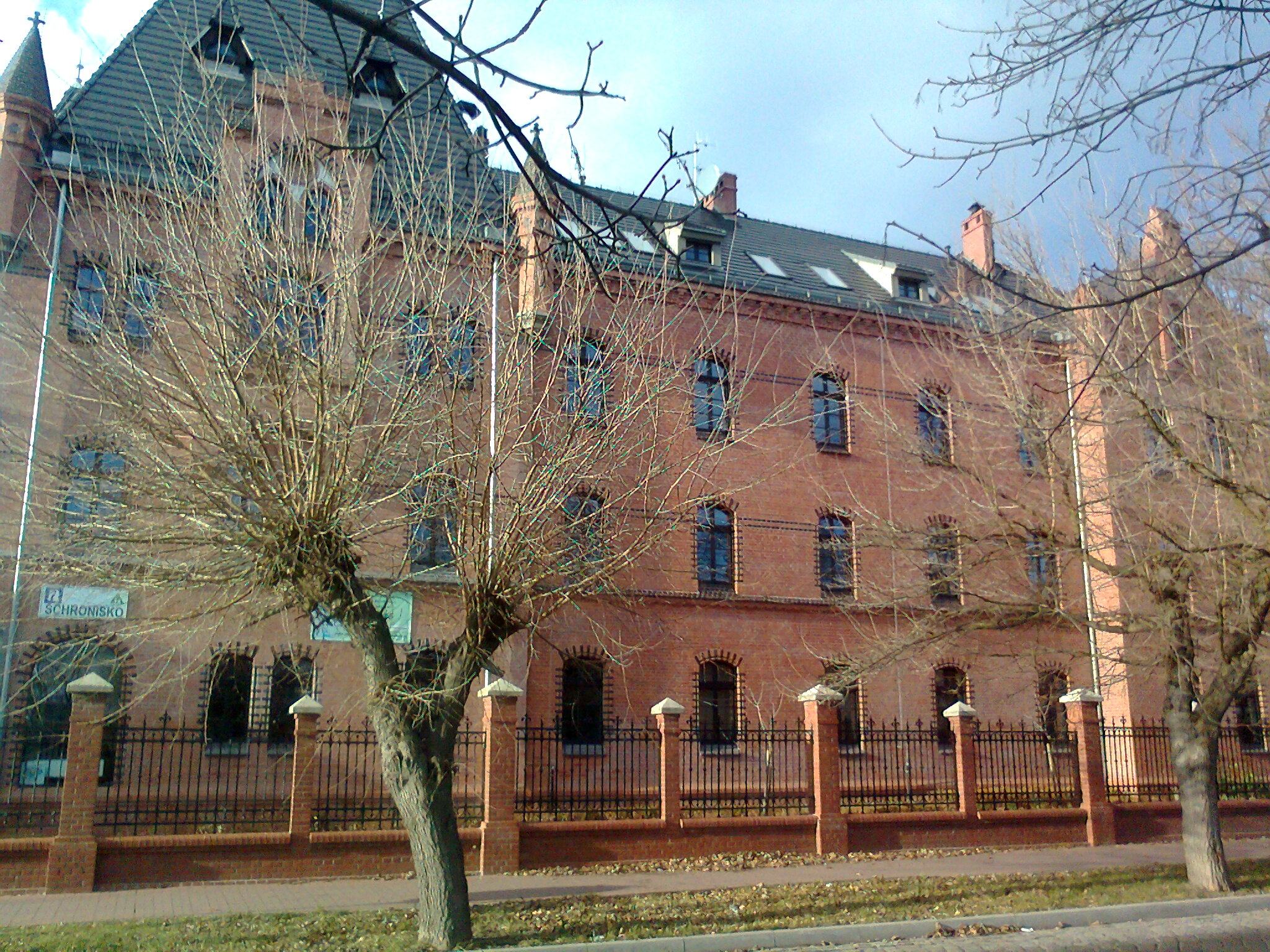 26 Jarosława Dąbrowskiego Street in Prudnik